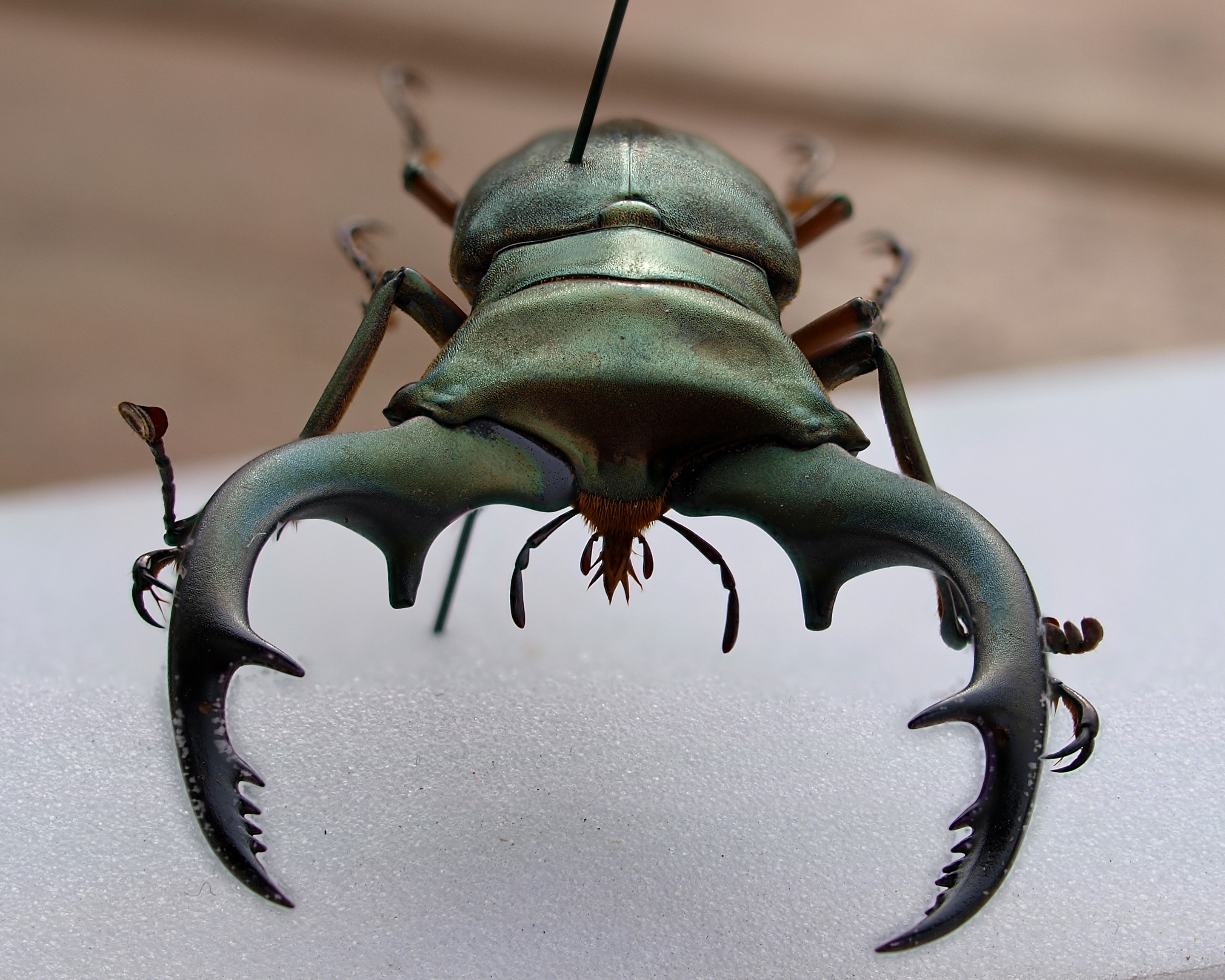 Cyclommatus truncatus, male, frontal view